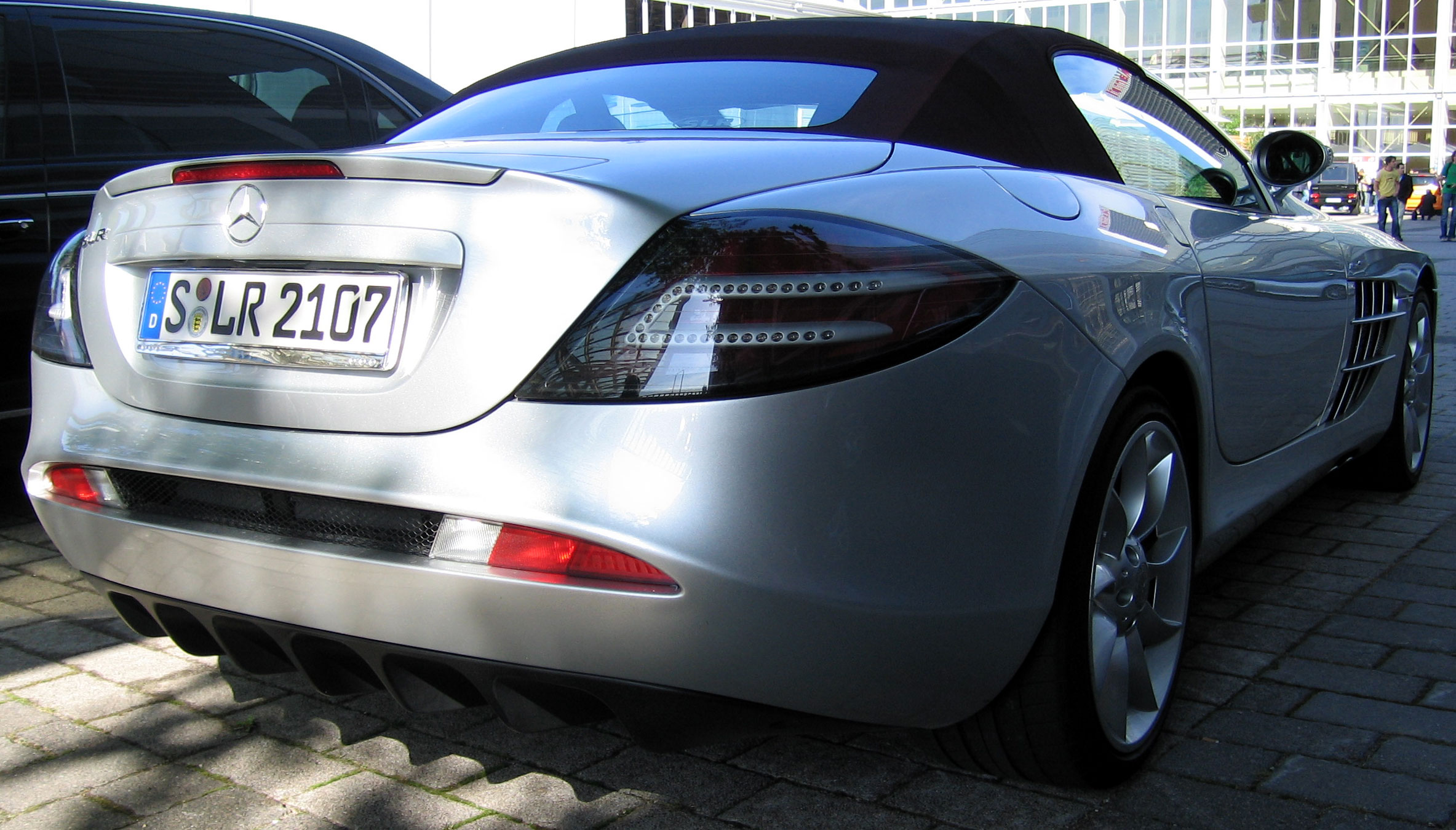 Mercedes-Benz SLR McLaren Roadster at the IAA 2007